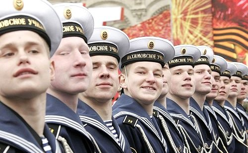 A military parade celebrating the 62nd anniversary of Victory in the Great Patriotic War took place on Red Square